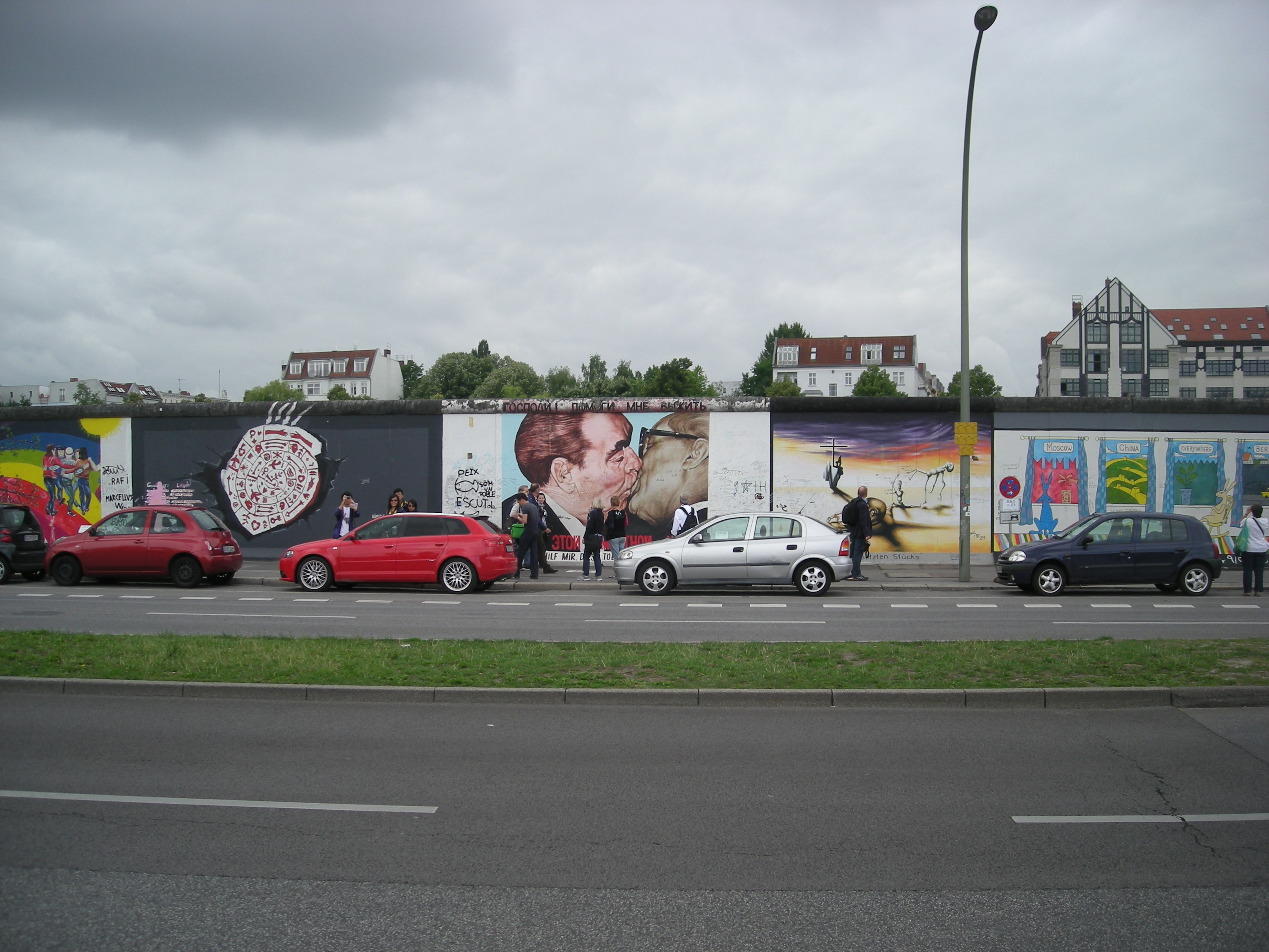 The East Side Gallery in Berlin (Germany).